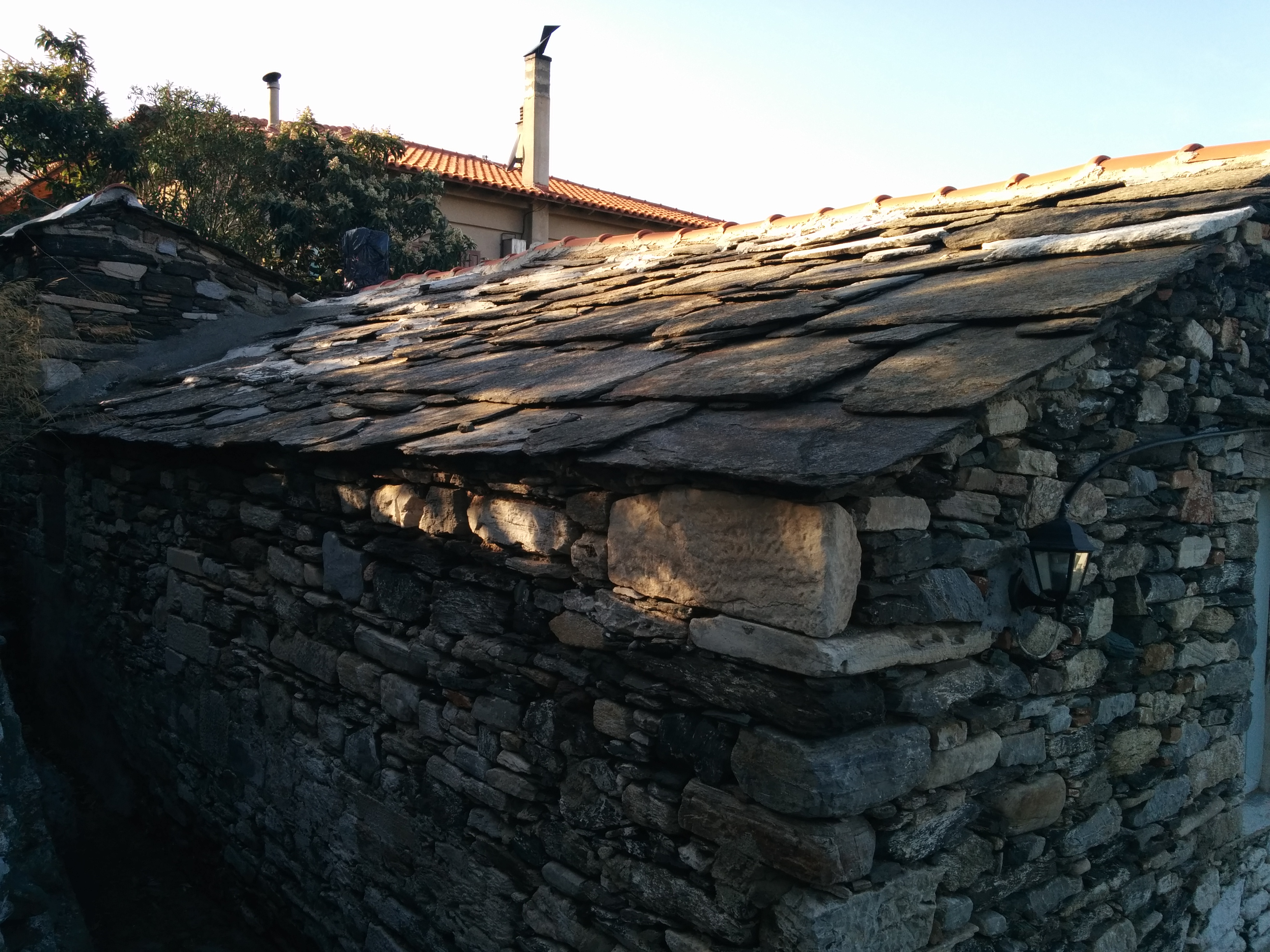 Traditional roof tiles at Kampos, Ikaria - Greece